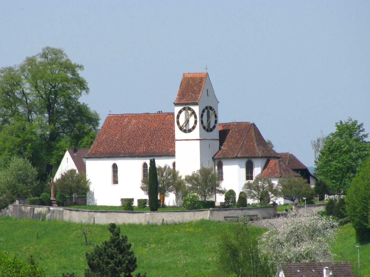 Old Catholic church St. Martin in Magden